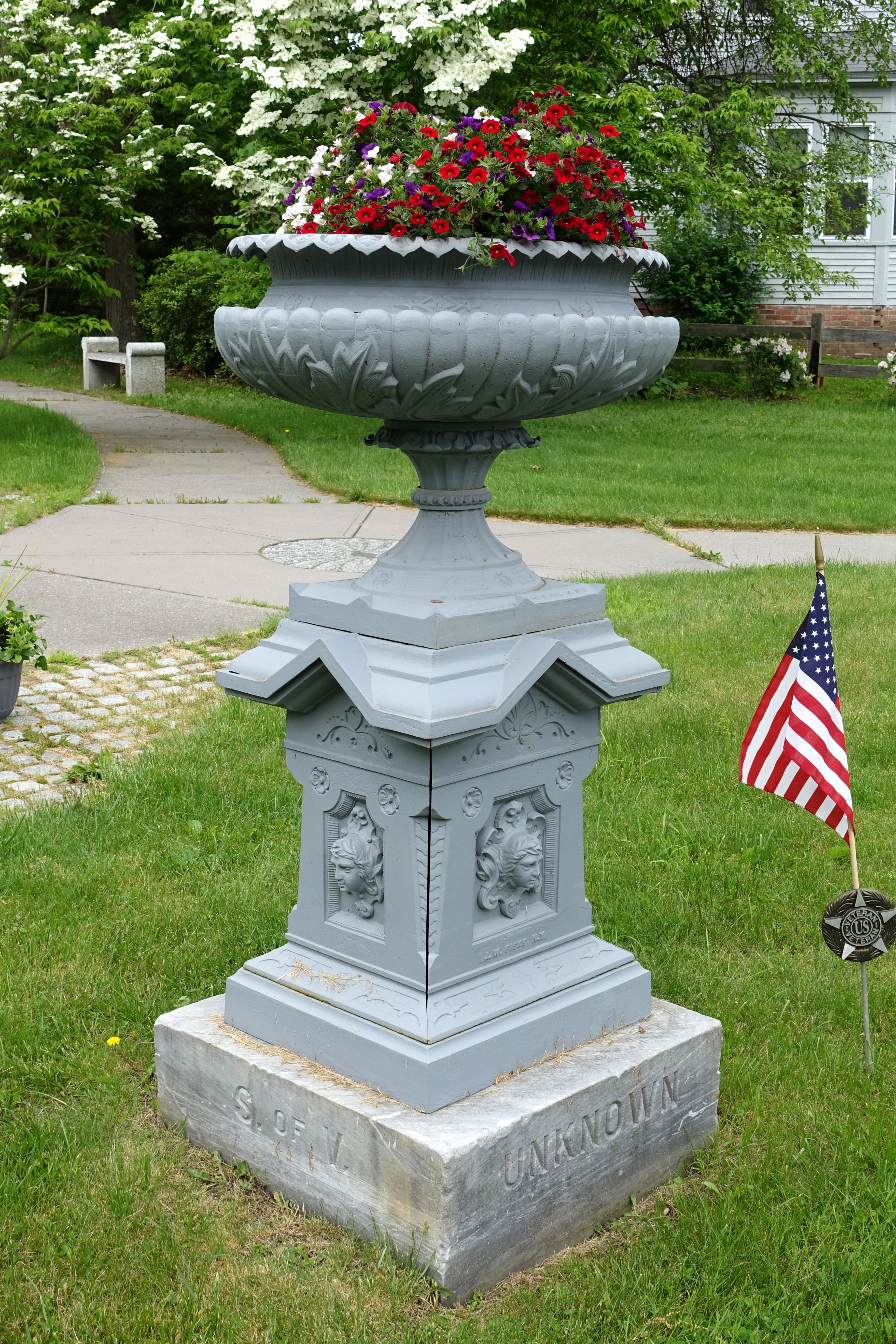 Memorial in Conway, Massachusetts, USA.